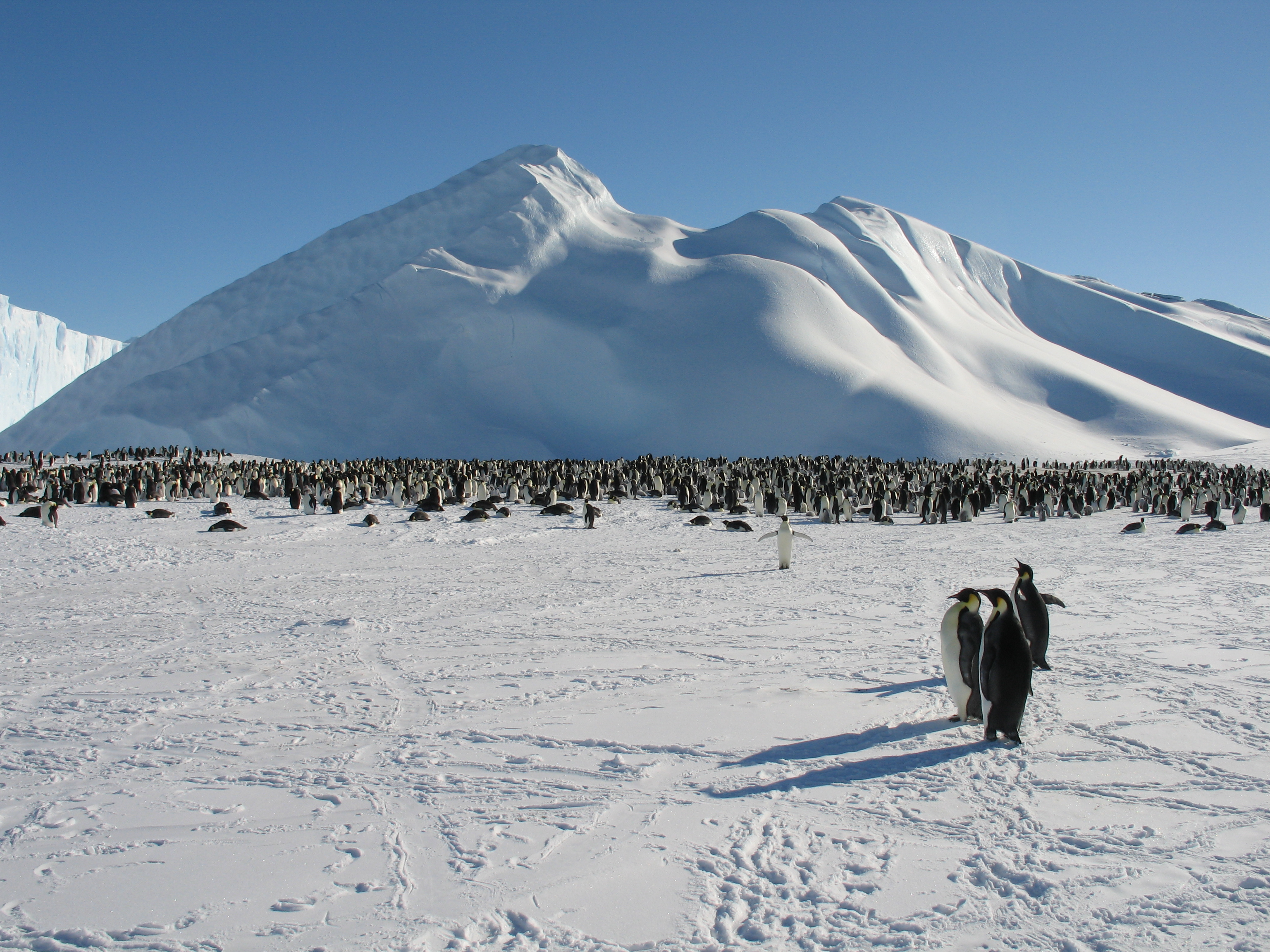 emporer penguins at Auster rookery Antarctica